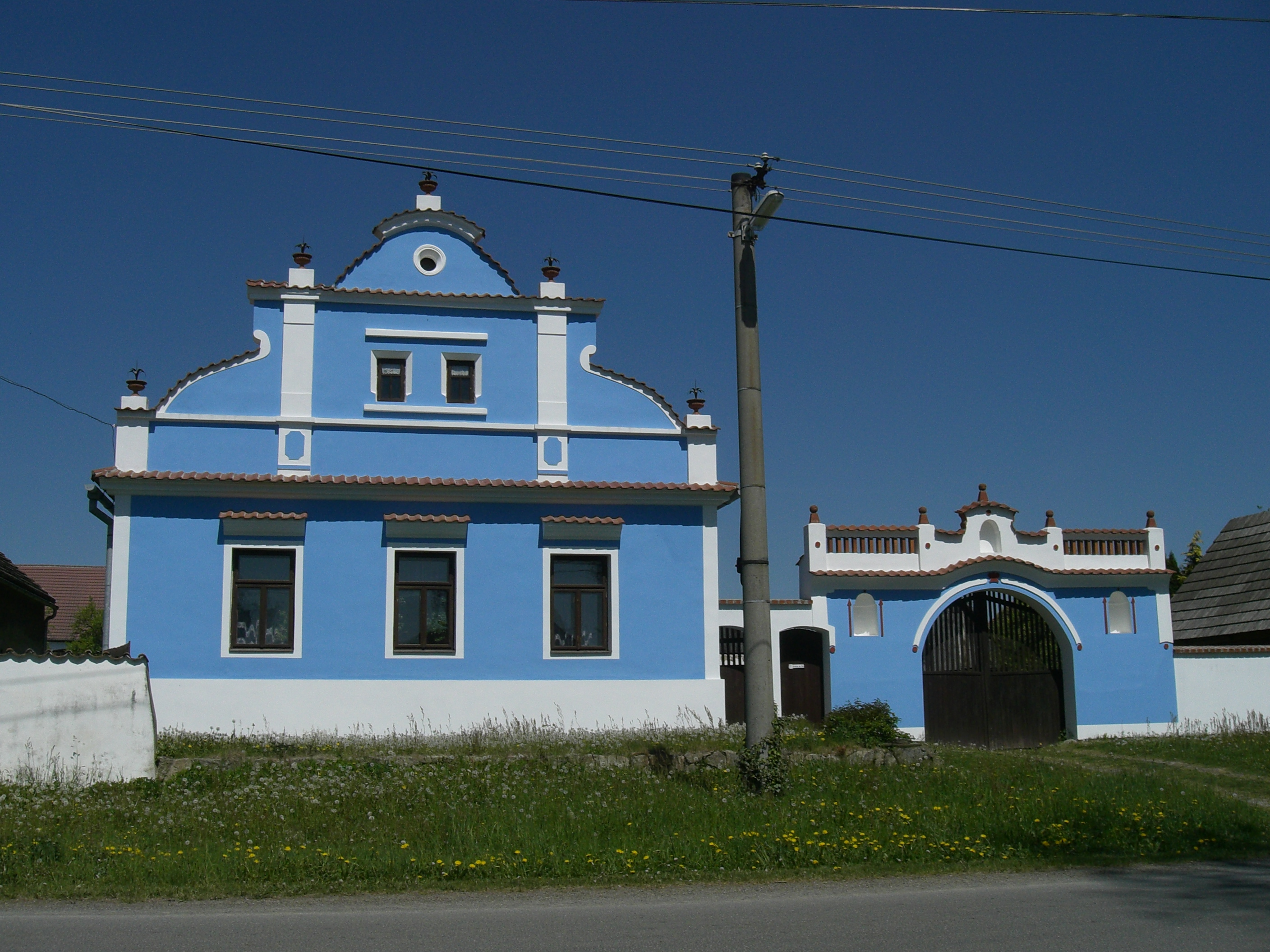 Květov village in Písek district, Czech Republic. Old building.